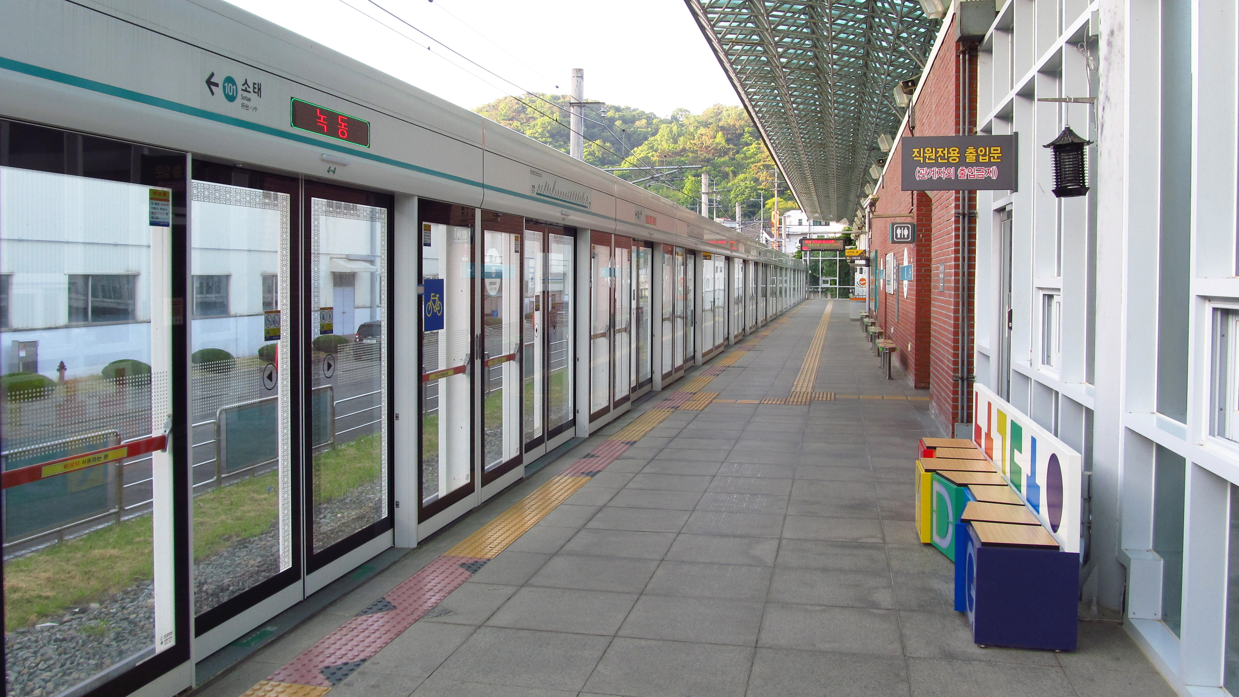 The platform at Nokdong Station on Gwangju Metro Line 1 in Dong-gu, Gwangju, Republic of Korea(South Korea)